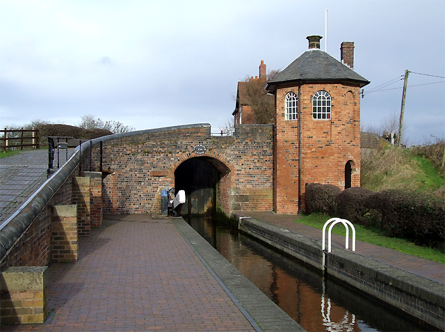 Middle Chamber and Upper Bratch Bridge, Staffs and Worcs Canal James Brindley's solution here was to raise the water more than thirty feet by means of a staircase of three deep locks. These were later converted to a more conventional flight by means of large side ponds. However, this chamber is full, and the top gate has been left open by the crew which went up about twenty minutes ago. If the next crew coming up opens the bottom paddles to empty the lock, all the water from the side pond will empty out, leading to big problems :-) The octagonal building was a toll house. More details